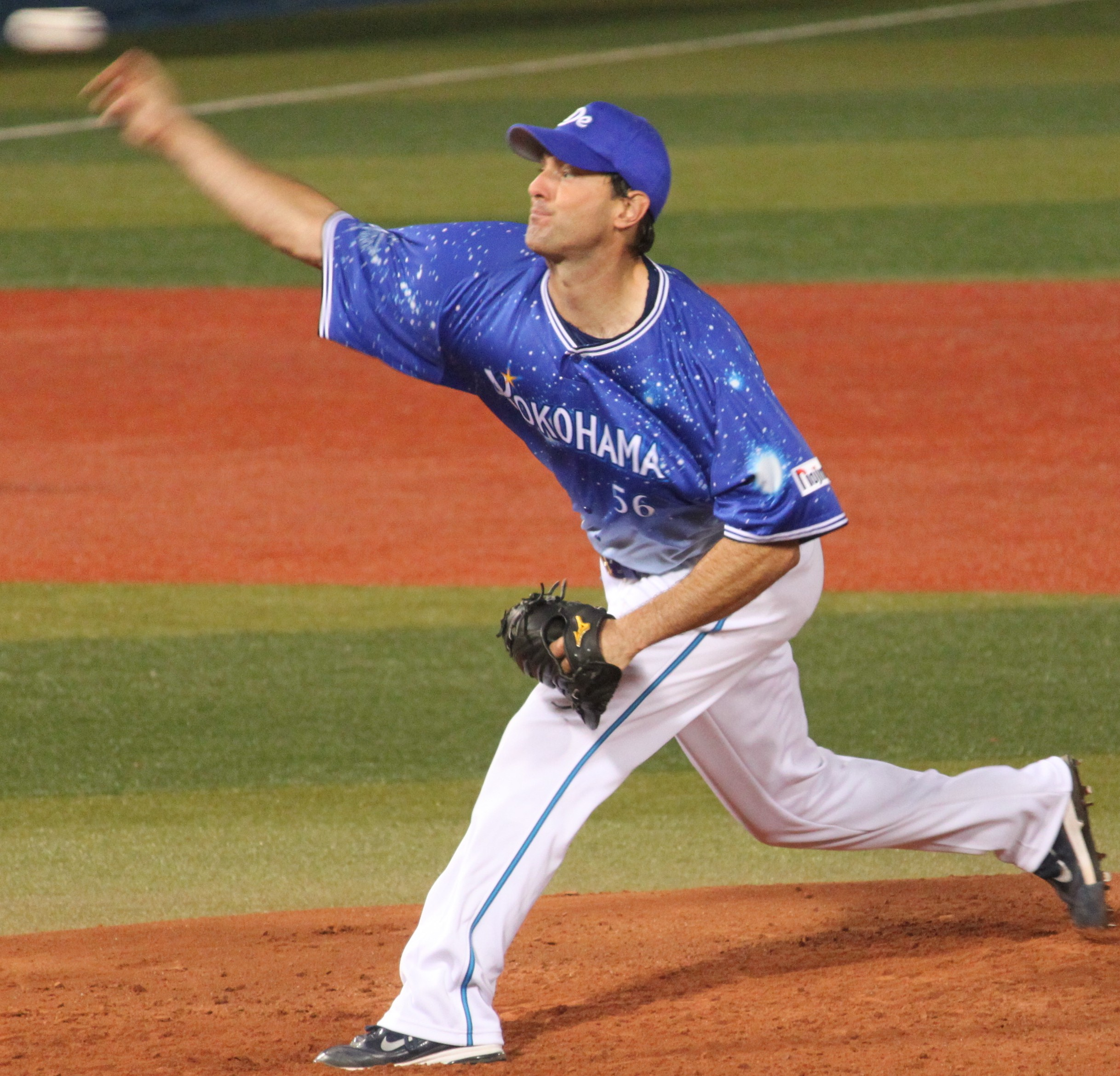 Tim Corcoran, pitcher of the Yokohama DeNA BayStars, at Yokohama Stadium.